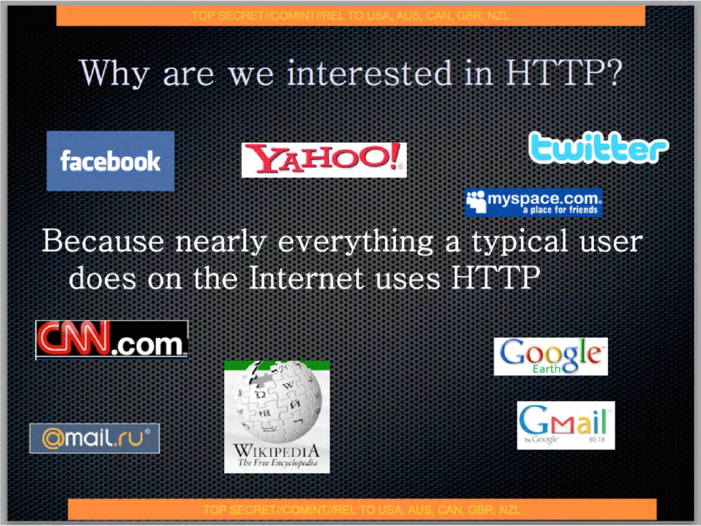 NSA leaks